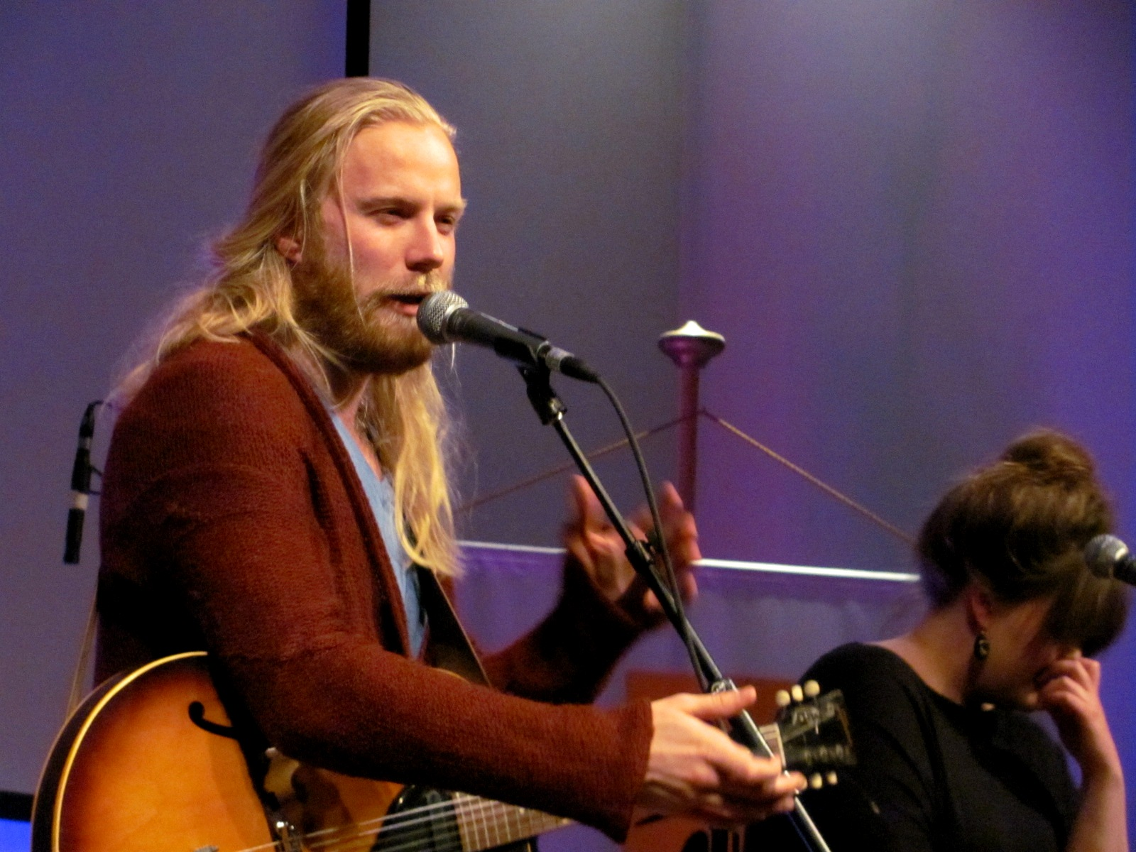 This picture was taken during Hjaltalin performance in Reykjavik in 2011.